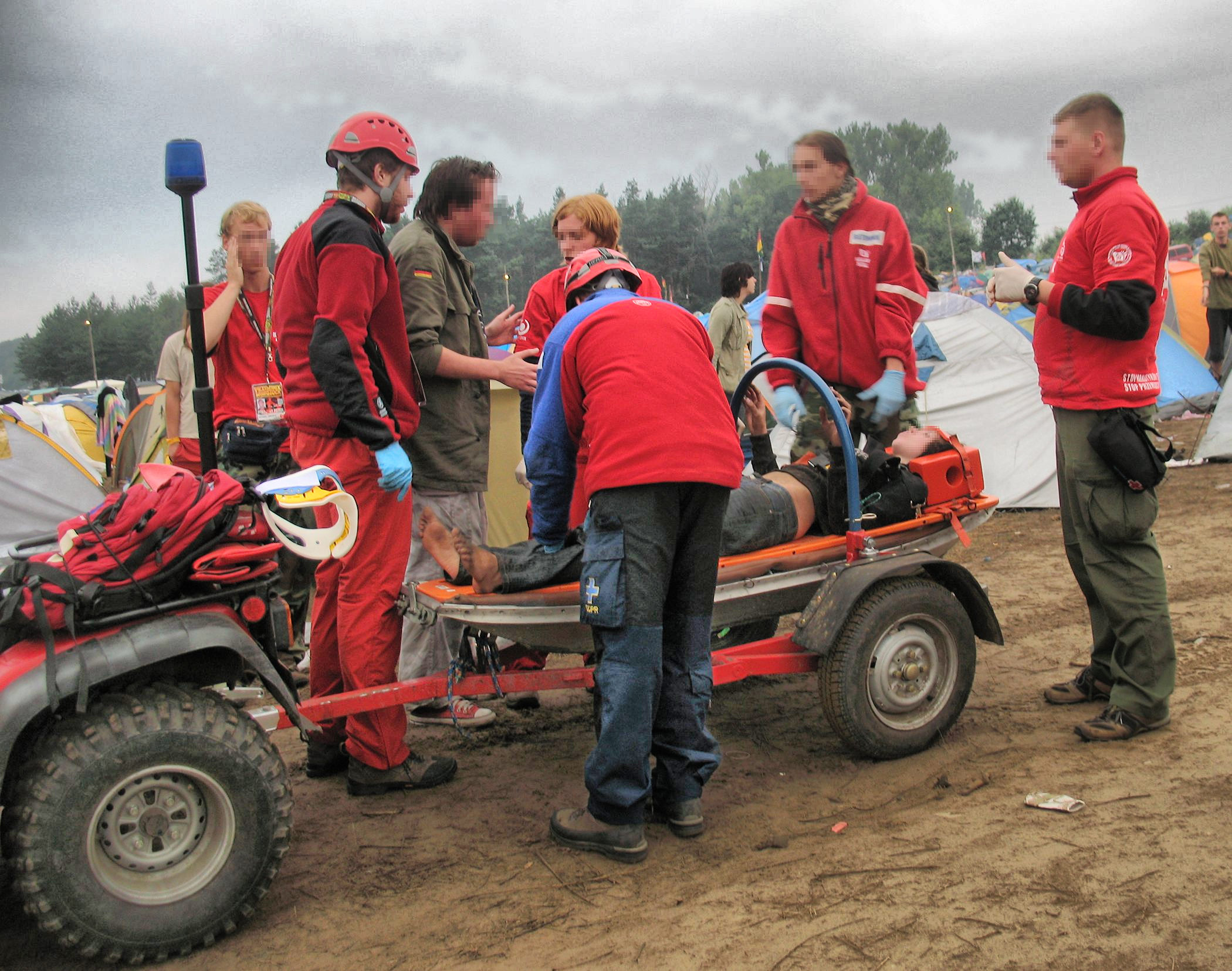 The Woodstock gathering Festival. The medical services at work. 4 o'clock in the morning - drugs overdose case